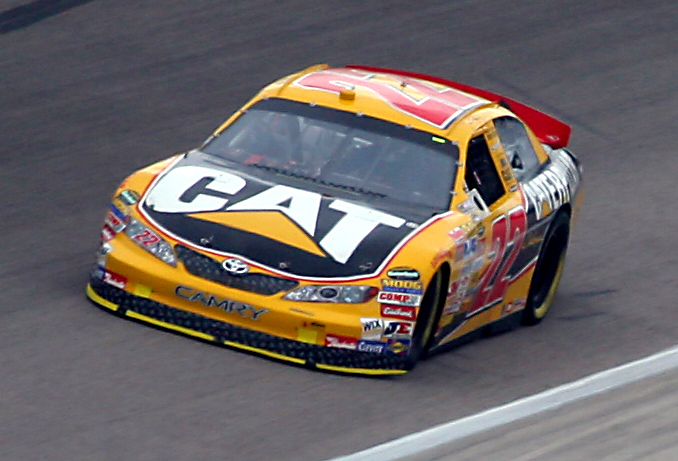 Dave Blaney's #22 NEXTEL Cup car in April 2007